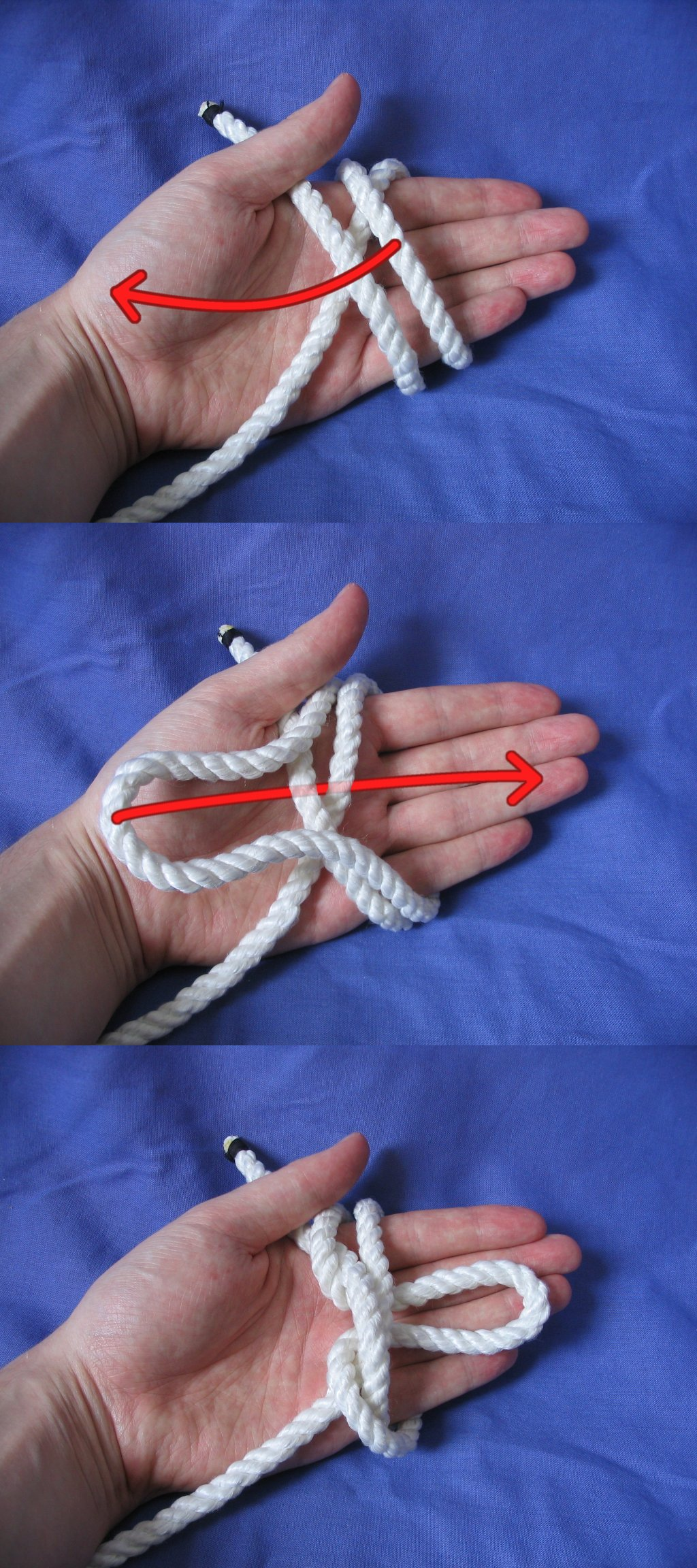 Description: Tying an alpine butterfly loop on the bight. Created by: Johan Andersson 17:18, 5 April 2006 (UTC)